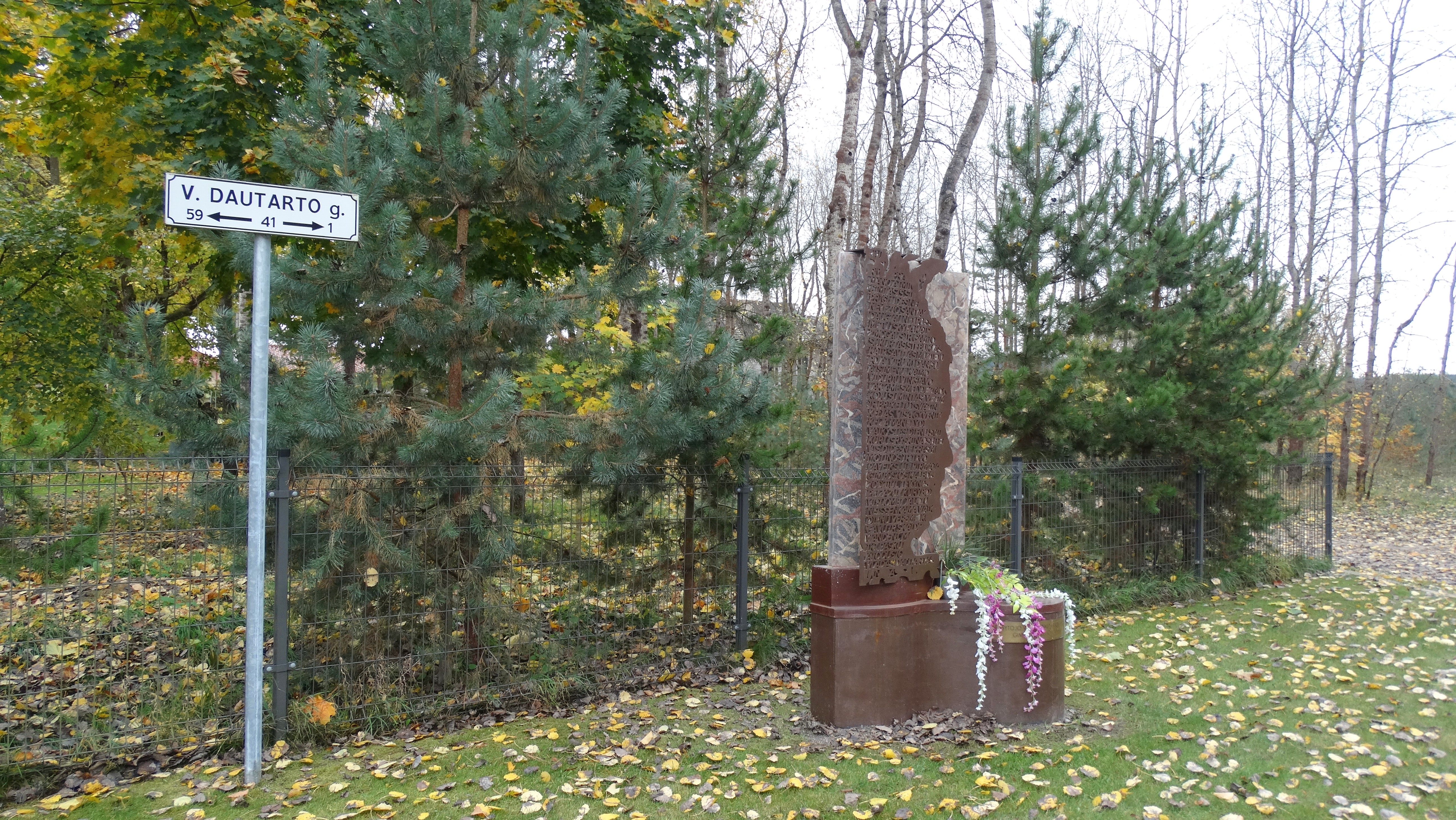 Vladas Dautartas Street in Šilelis, Kaunas district, Lithuania